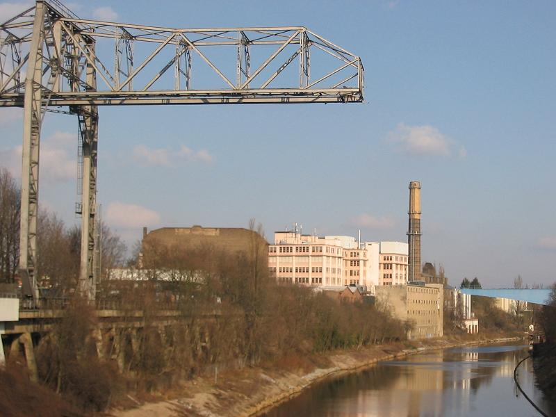 Listed former factorie Sarotti between the Teilestraße and the Teltowkanal in Berlin-Tempelhof. Built between 1911 and 1913 by the architects Oscar Müller and Hermann Dernburg; 1922/23 by Bruno Buch. In the foreground the listed VAUBEKA-Portainer, built in 1935.